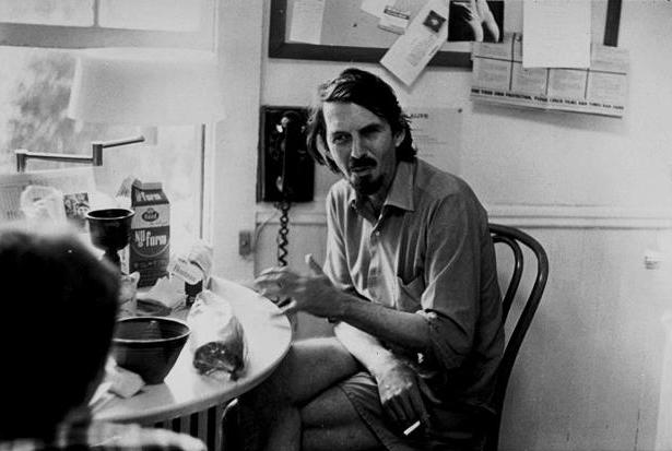 Robert Creeley by Elsa Dorfman. Portrait taken in 1972.